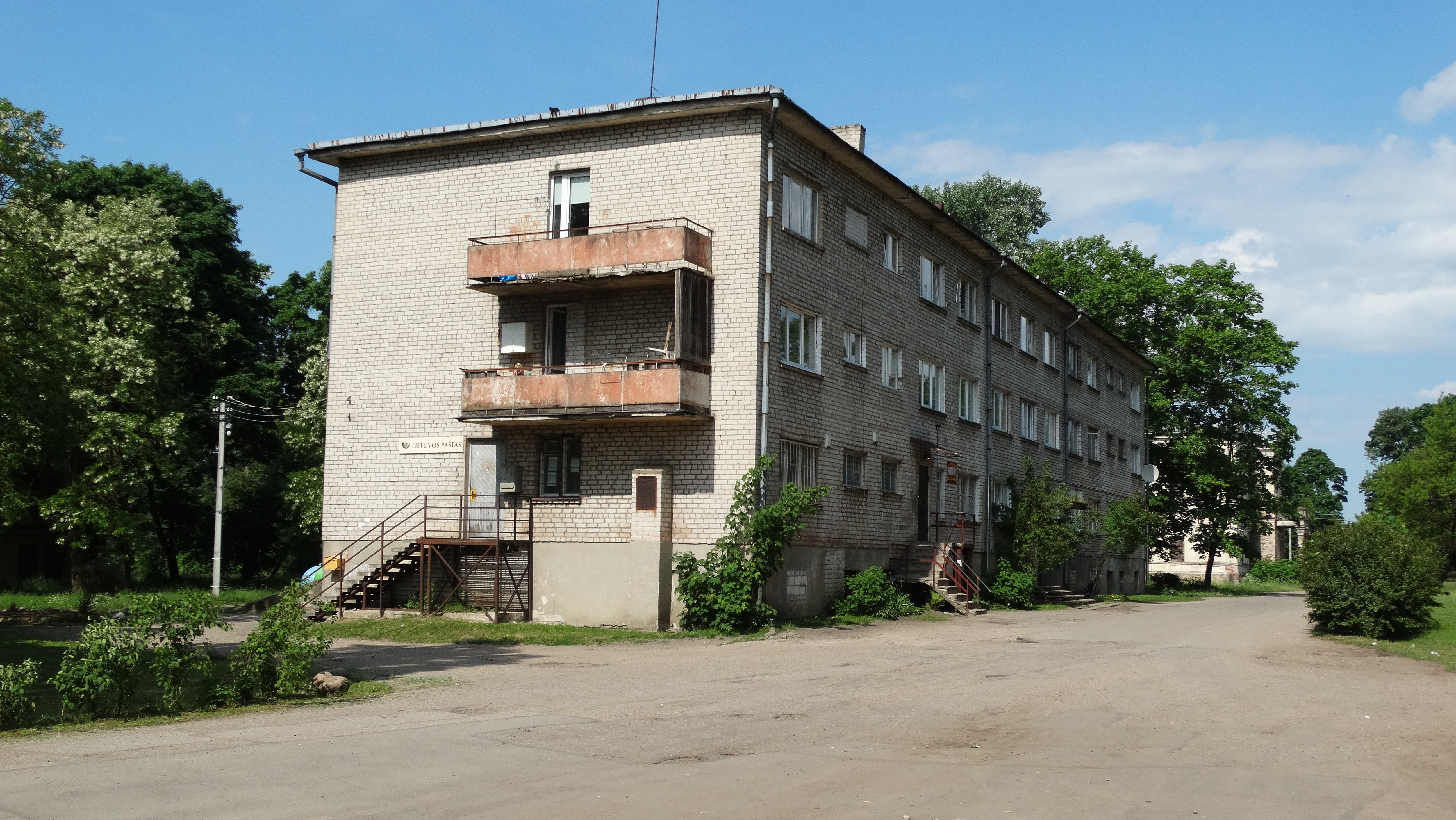 Baltoji Vokė, Vilnius District, Lithuania